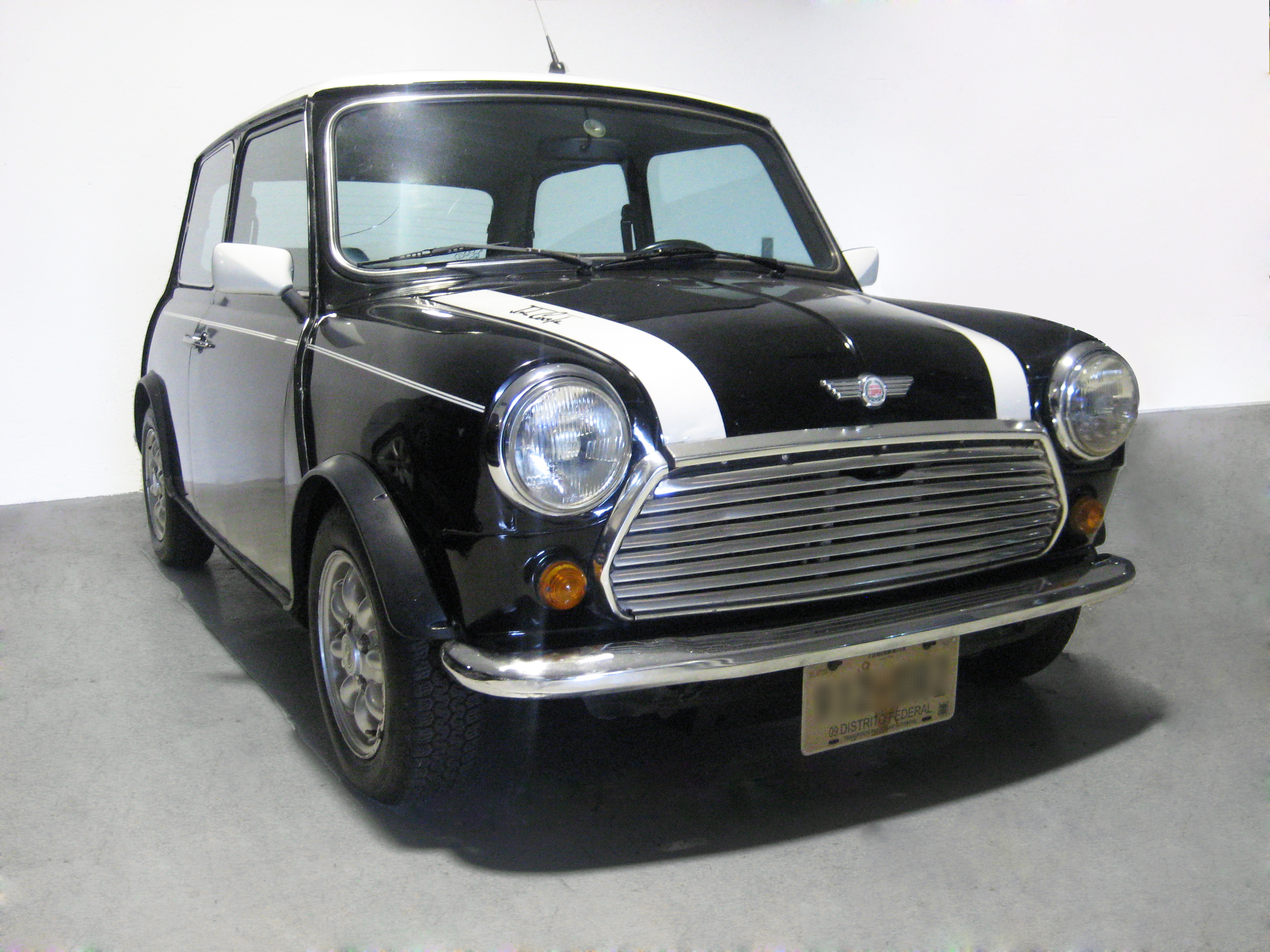 199? Rover Mini Cooper